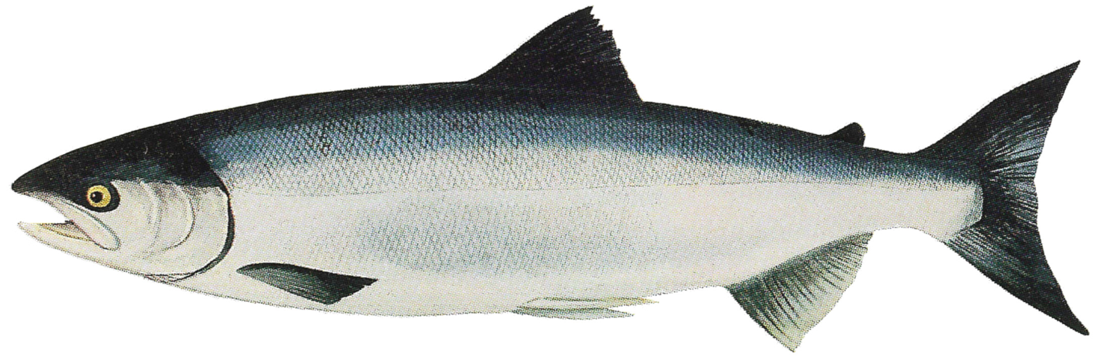 Drawing of ocean phase Sockeye (red) salmon (Oncorhynchus nerka) from a pamphlet about the Lake Washington Ship Canal Fish Ladder at the Hiram M. Chittenden Locks, Seattle, Washington, scanned at 600 dpi and cleaned up.